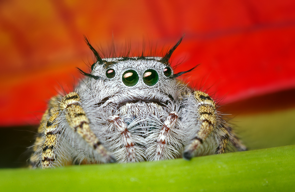 Macrophotograph of an adult female Phidippus mystaceus jumping spider found in Oklahoma.